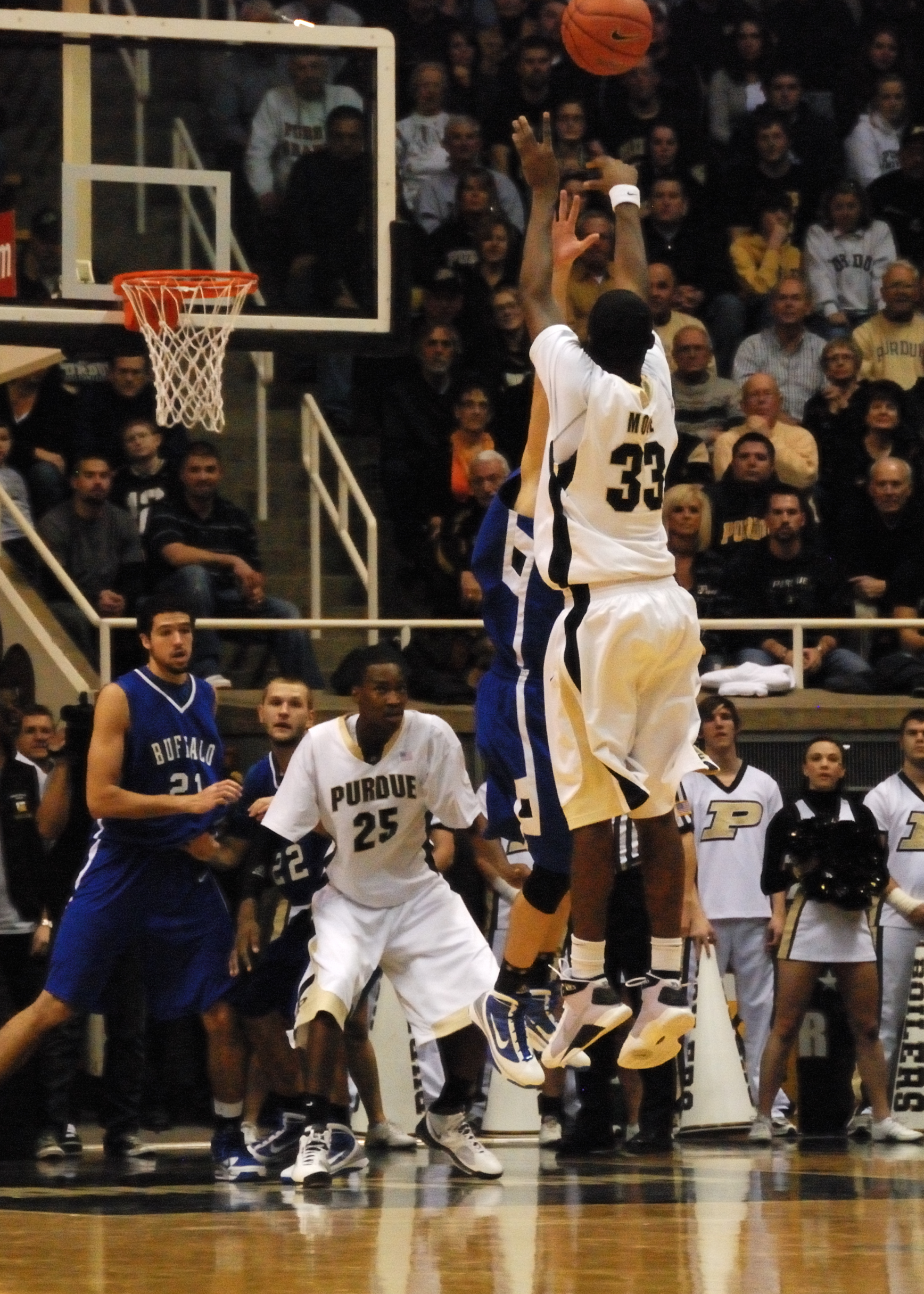 E'Twaun Moore of the w:2009–10 Purdue Boilermakers men's basketball team shoots against w:2009-10 Buffalo Bulls men's basketball team